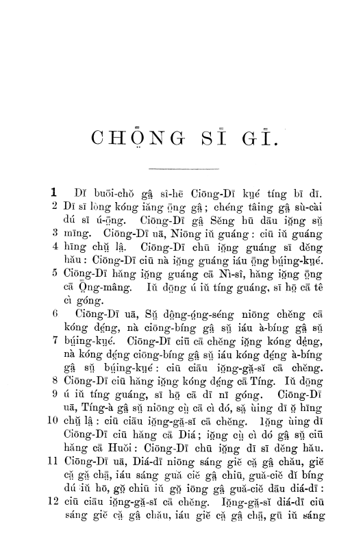 Book of Genesis, Jianning (Jian'ou) Bible.